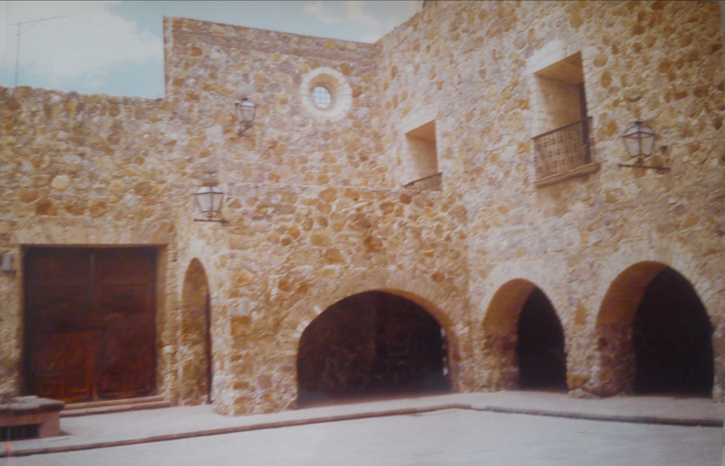 A restored Colonial building in downtown, San Luis Potosí